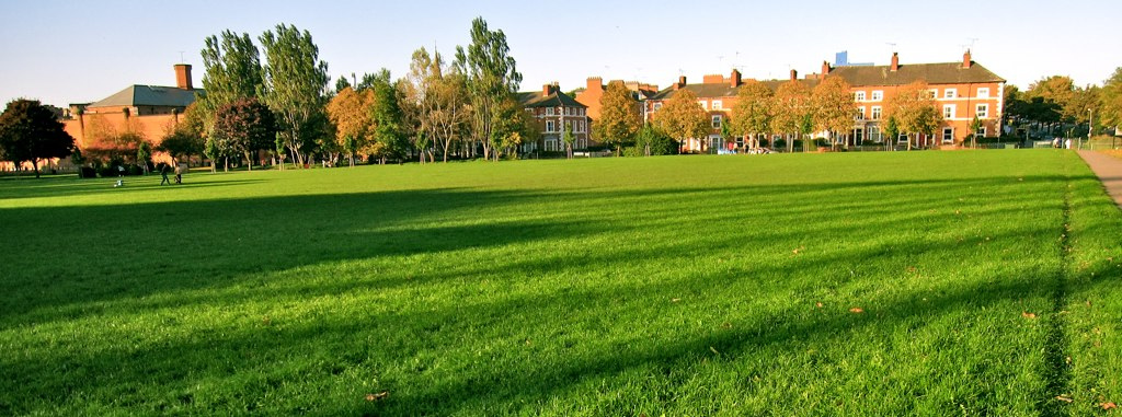 An autumn view of Nelson Mandela Park, Leicester, UK.